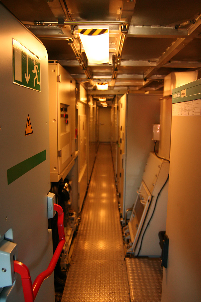 The engine room of a DB class 189 locomotive